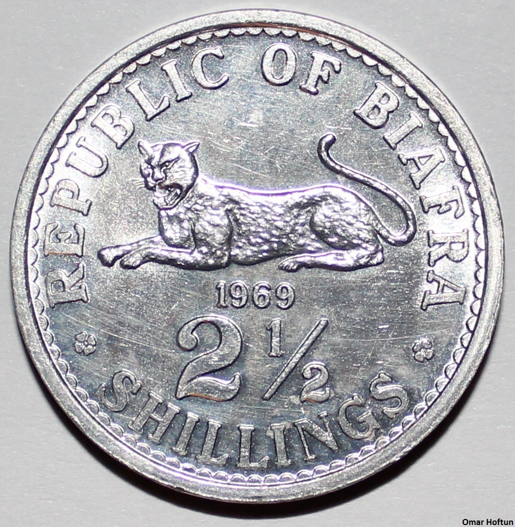 Biafran 2½ shilling coin from 1969 of aluminium, reverse.